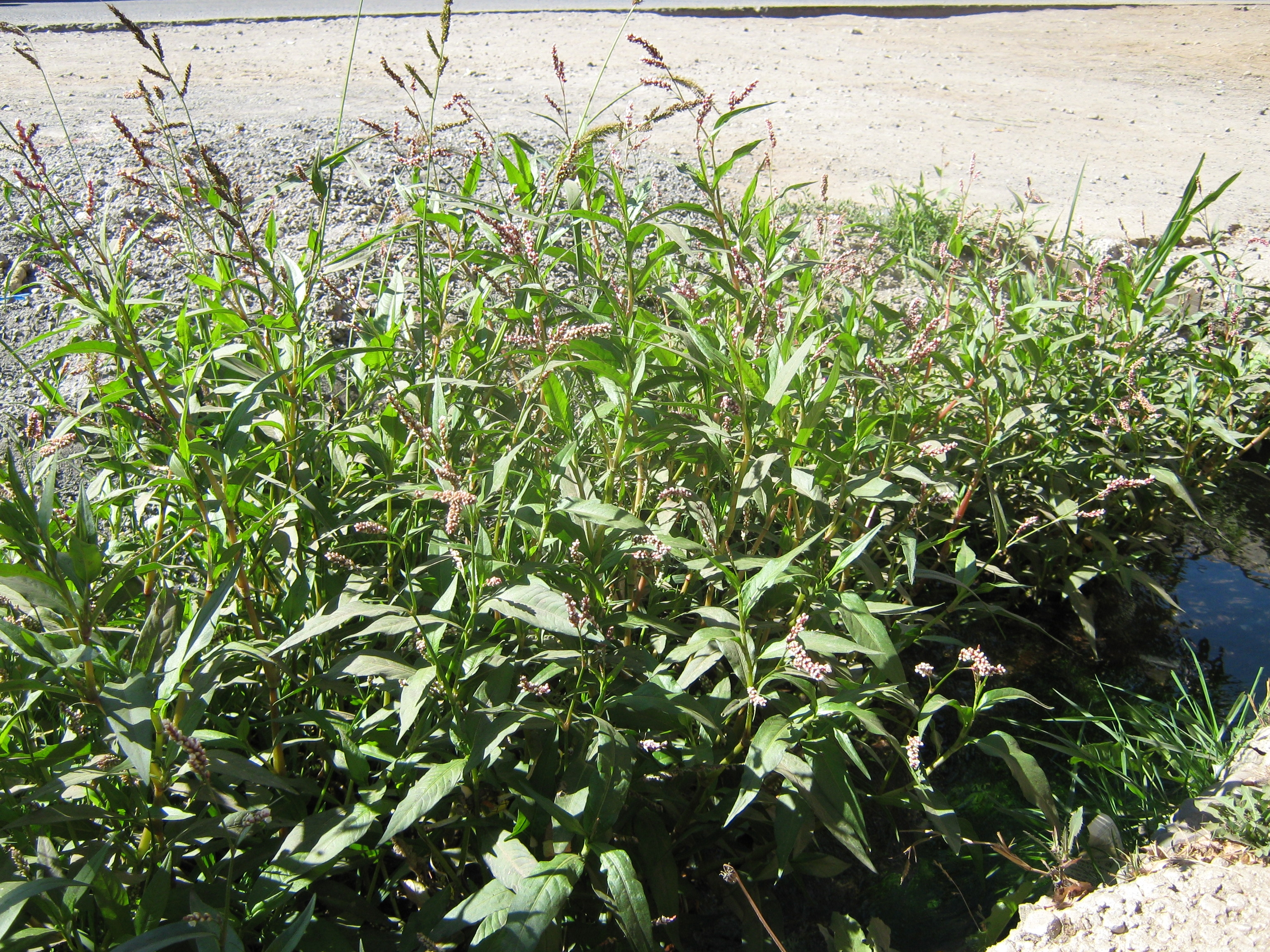 Polygonum persicaria